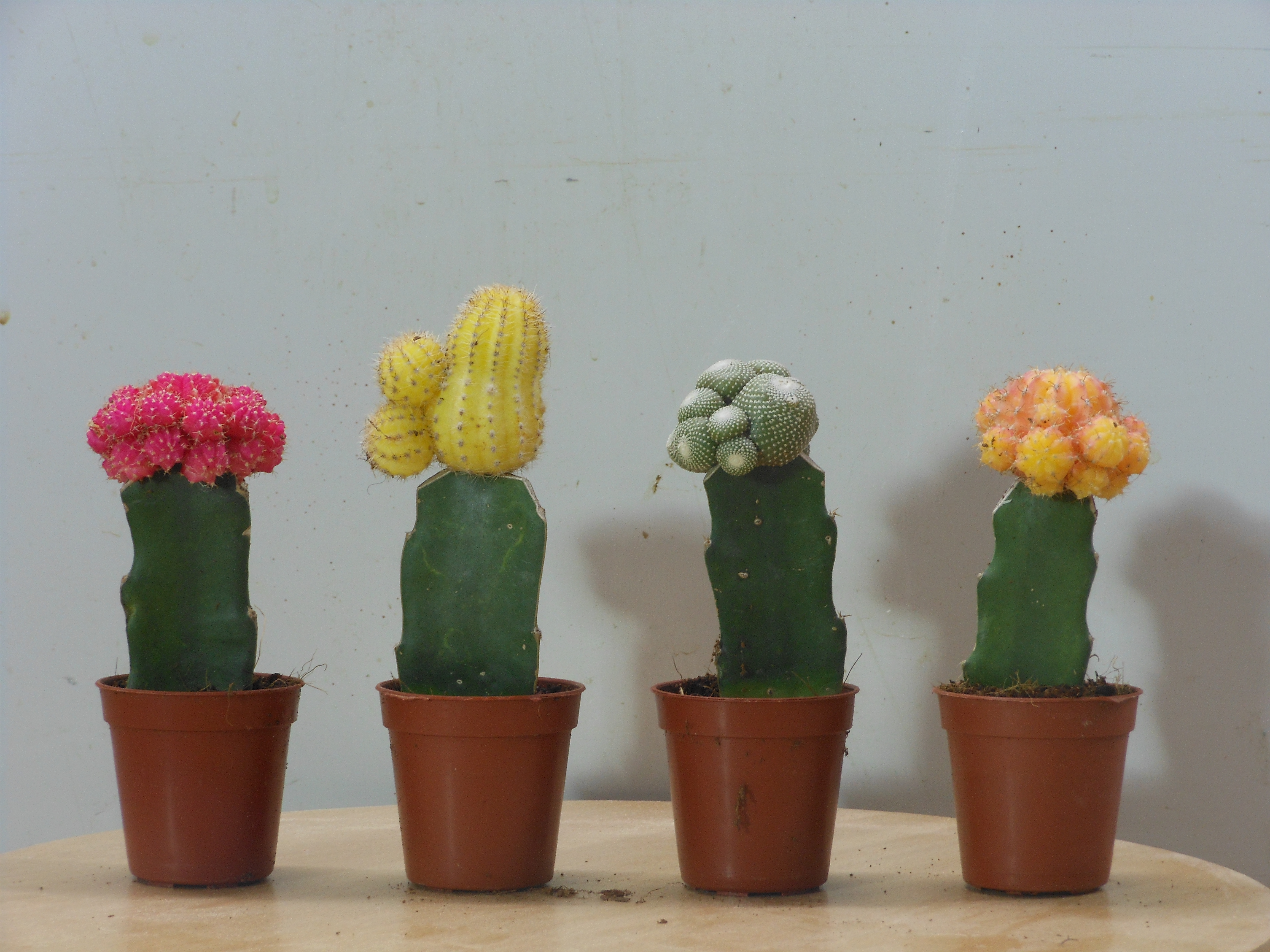 cactus